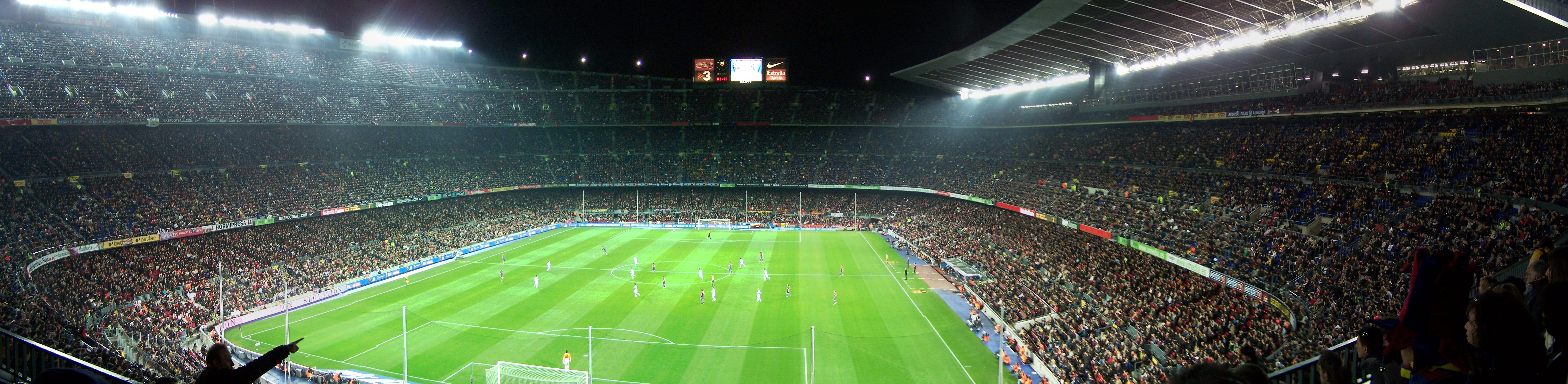 Camp Nou, Barcelona vs Malaga